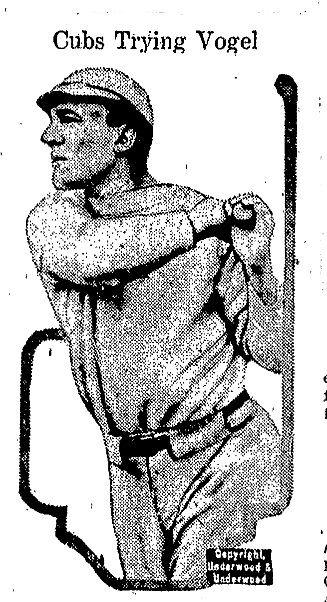 Otto Vogel newspaper photo